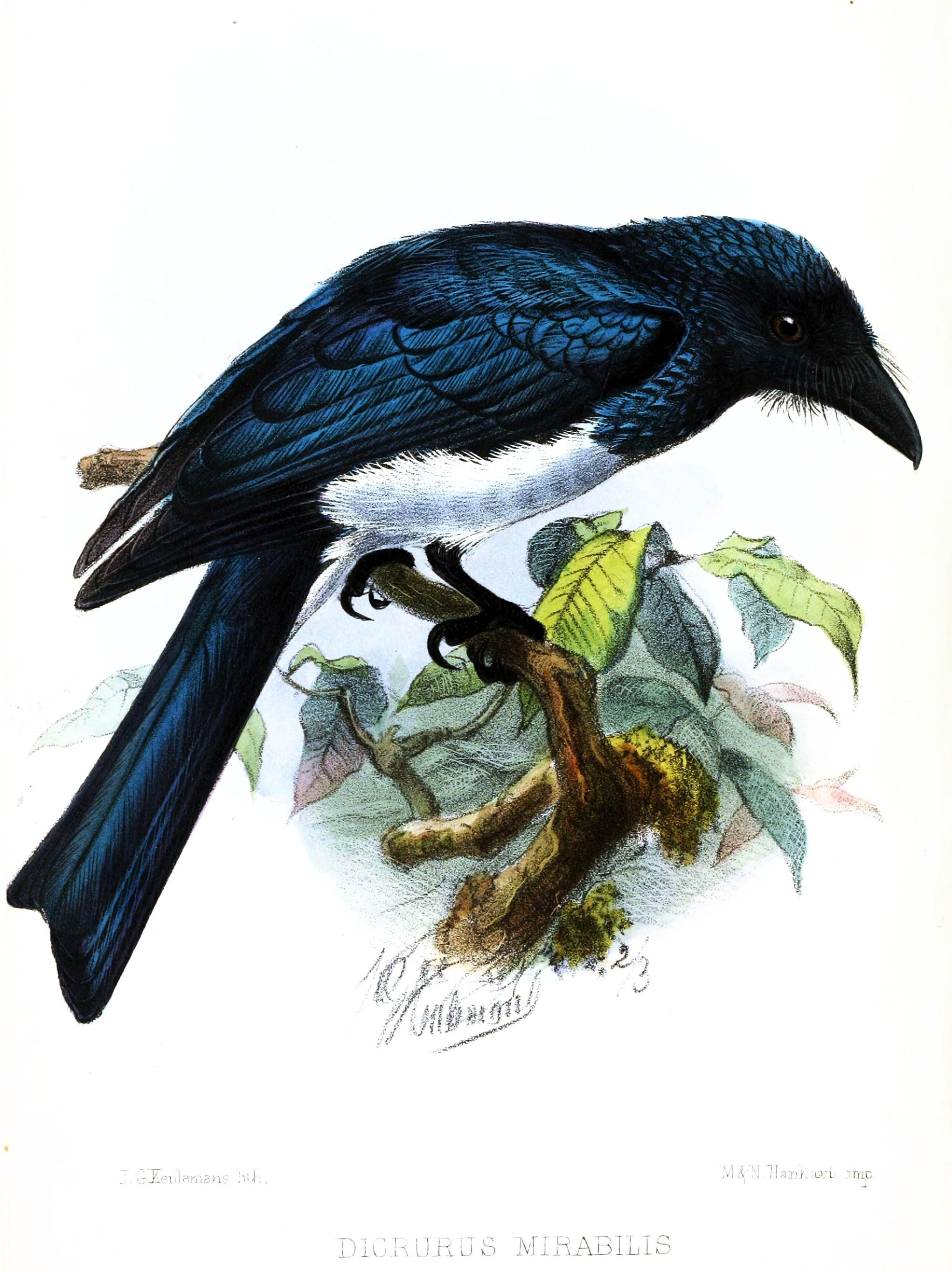 « Dicrurus mirabilis » = Dicrurus balicassius mirabilis (Subspecies of Balicassiao)